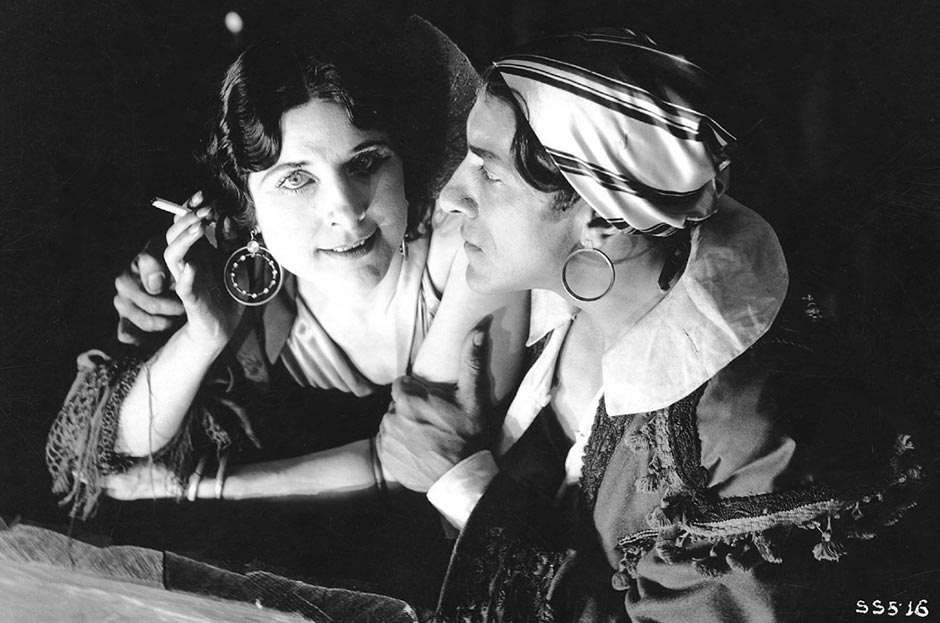 Geraldine Farrar (Carmen) & Pedro de Cordoba (Escamillo) in Carmen - publicity still